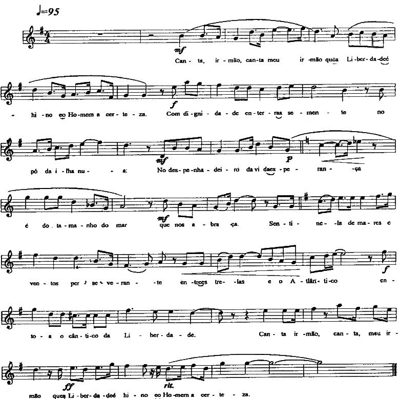 Copy of the score of the anthem of the Republic of Cape Verde officially published as an appendix to the Constitution